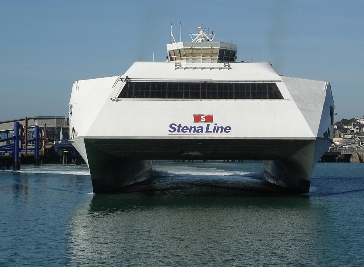 Stenna Explorer leaving Holyhead port on Salt Island en route to Dún Laoghaire